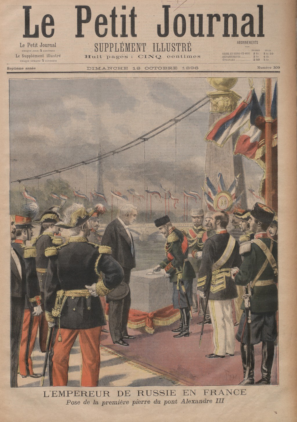 Cover of Le Petit journal. Supplément du dimanche 1896 october 18